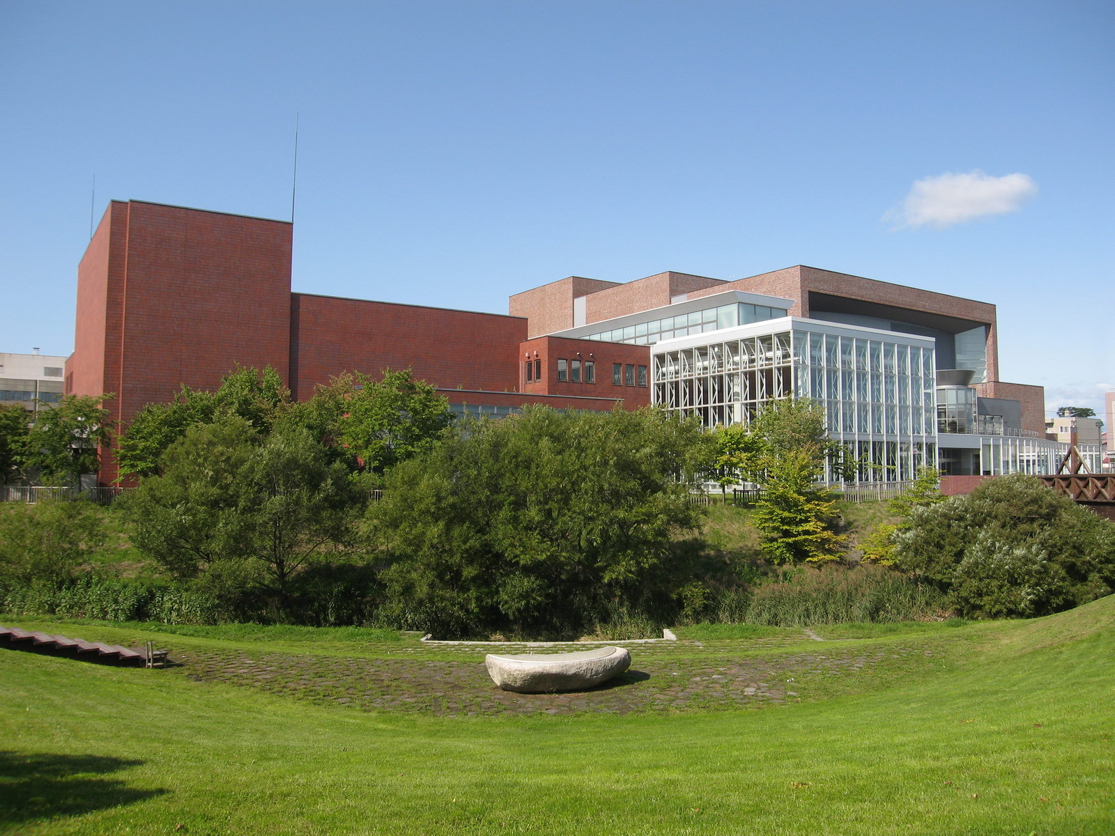 South side of the Iwamizawa City Culture Hall "Manamiru"